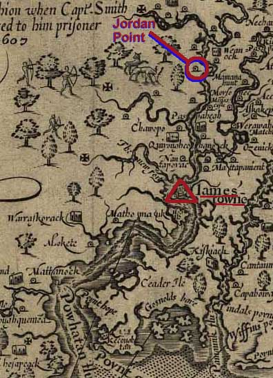 Image was is section of Wiki Common's Captain John Smith's 1624 map of Native American Settlement in Virginia. Map supplemented with label for settlement at Jordan Point